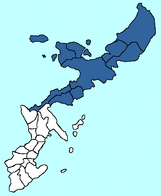 North Region of Okinawa Island